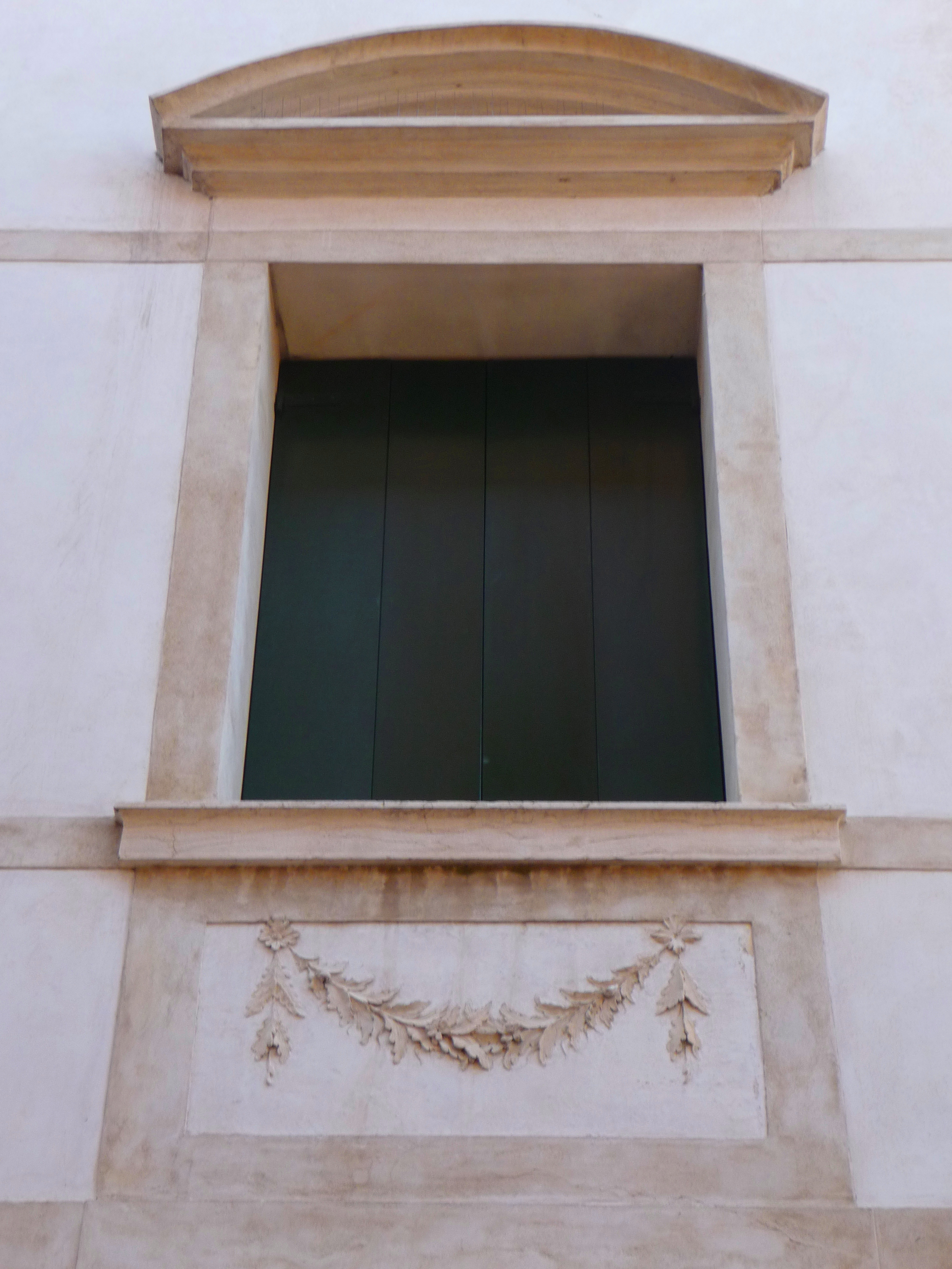 window of Palazzo Bomben in Treviso